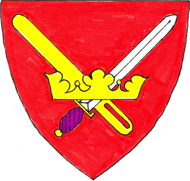 Municipal coat of arms of Pavlov village, Kladno District, Czech Republic.